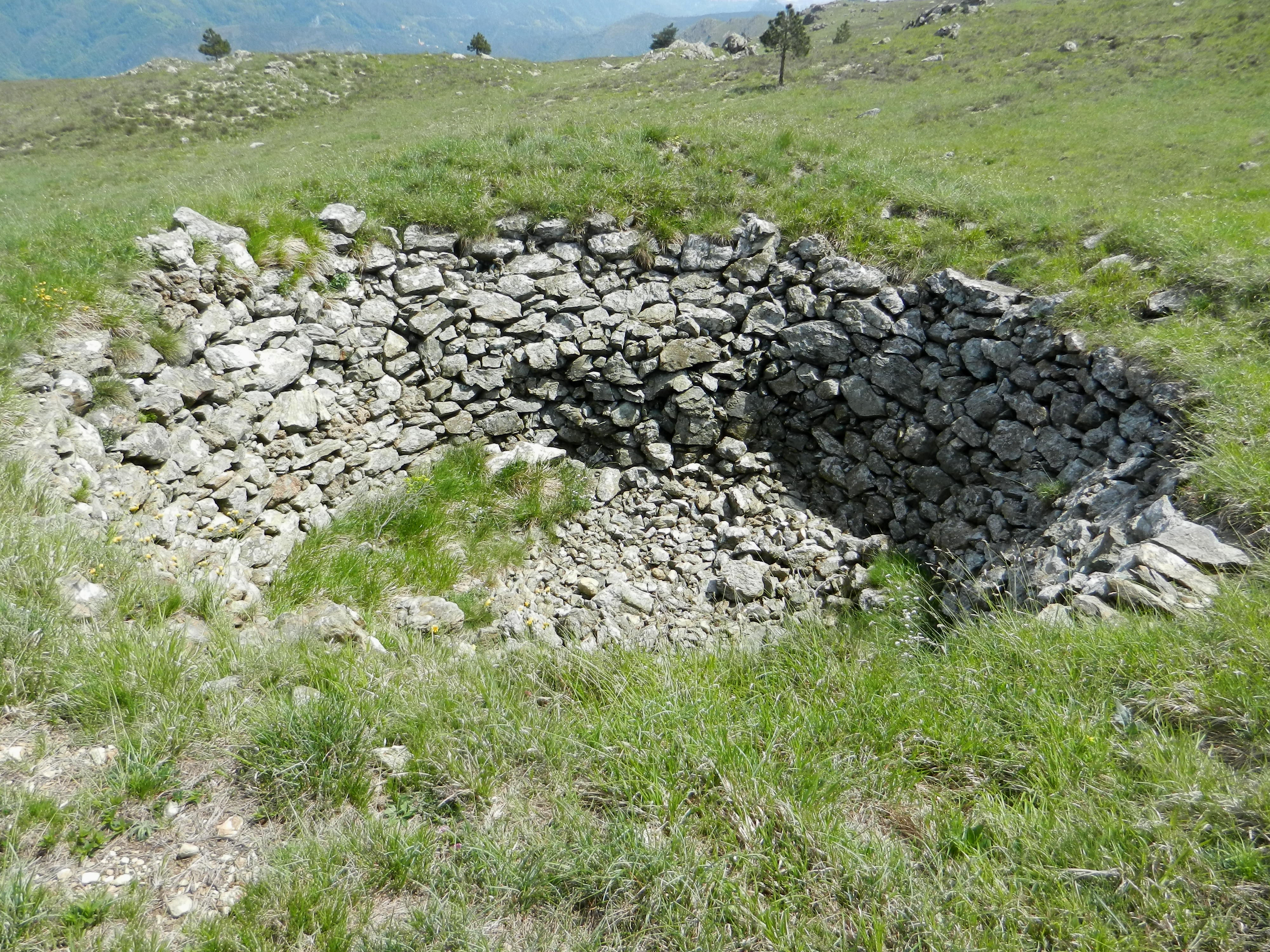 Mount Penello (province of Genoa), ruins of an old snow reservoir